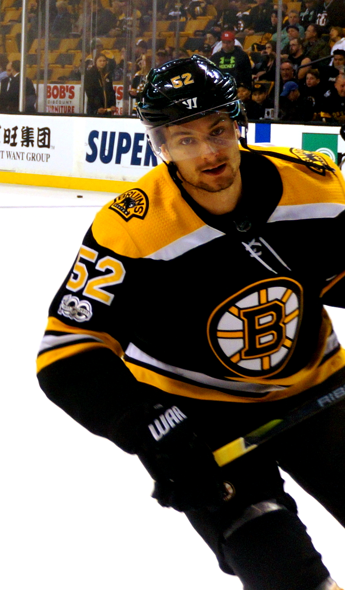 Taken during warm-ups prior to the Boston Bruins vs Los Angeles Kings game at TD Garden, Boston, MA.